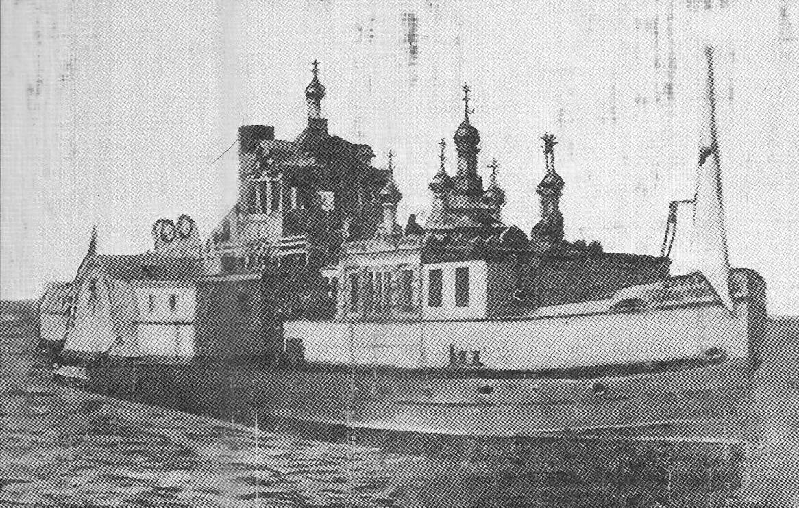 St Nicholas the Wonderworker's Floating Church